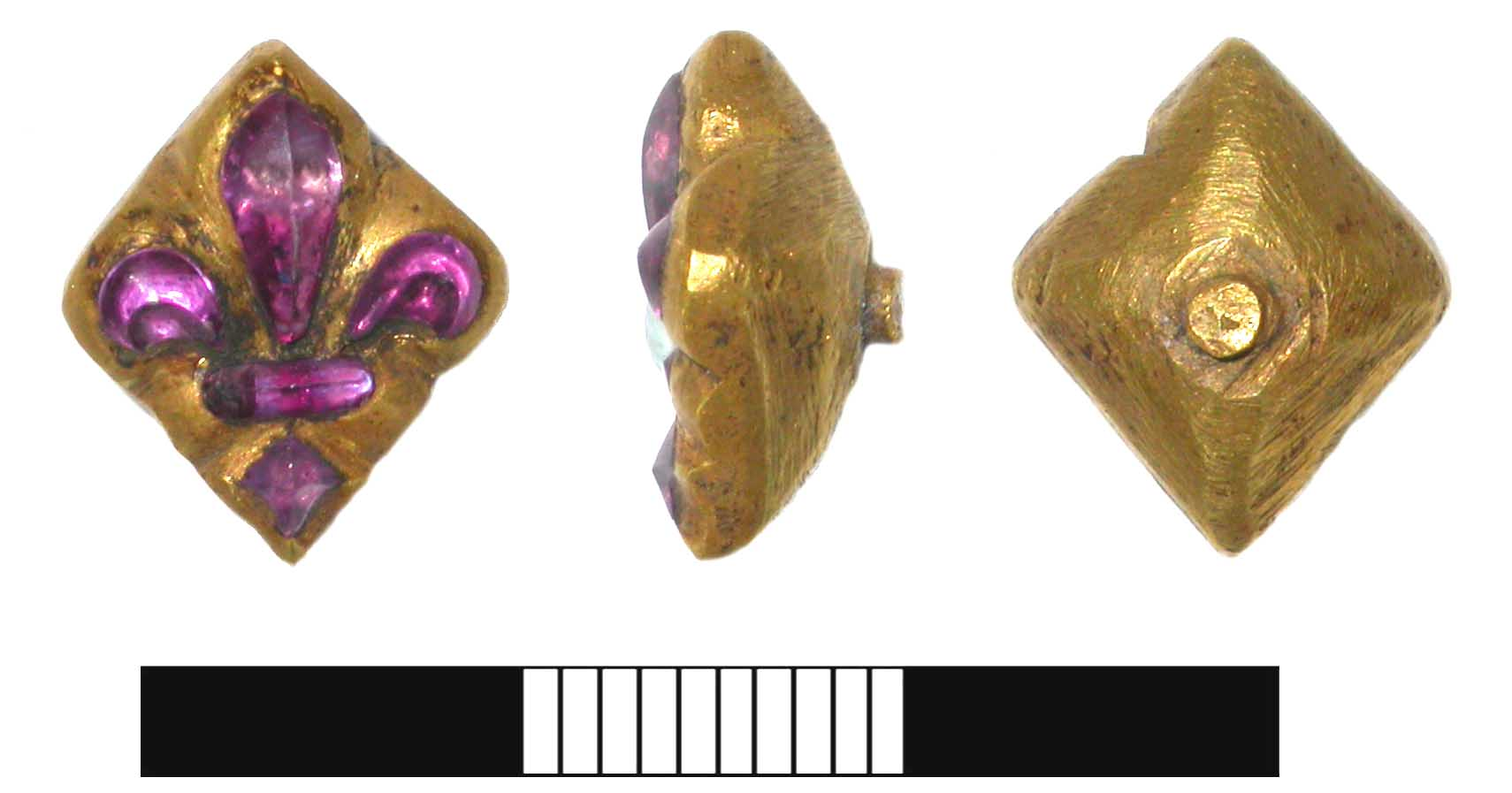 Medieval gold pin head in the form of a fleur de lys with amethyst inlay